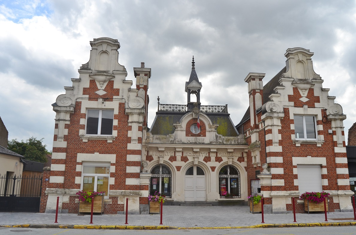 La Mairie